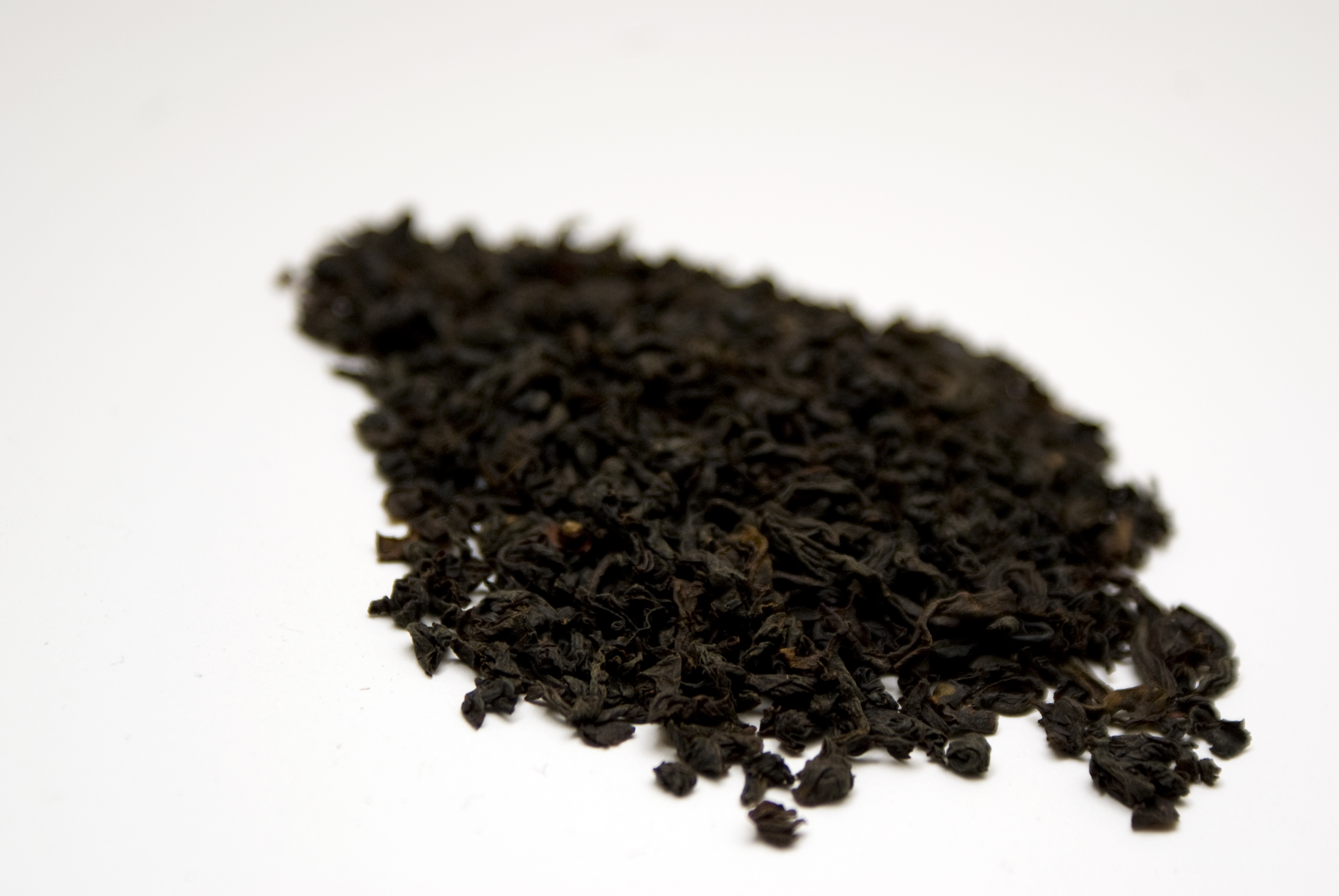 Ceylon Tea Leaves